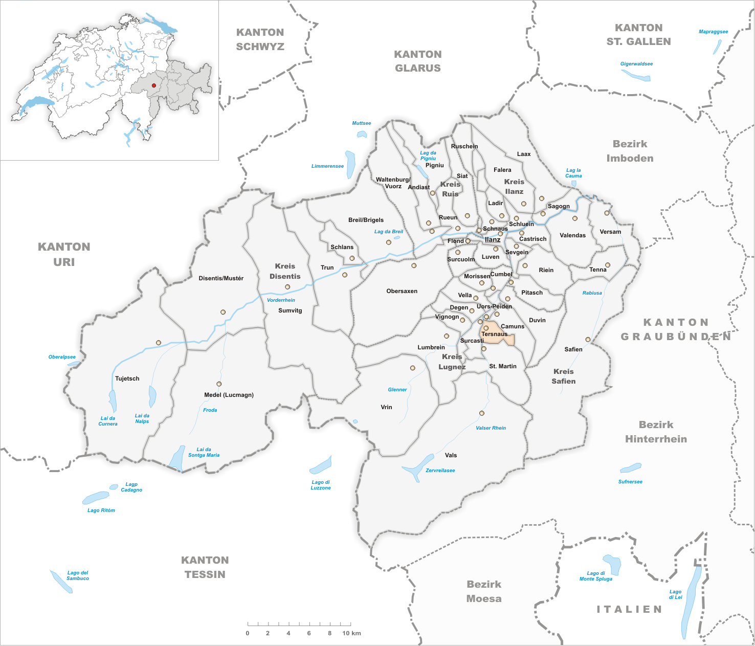 Municipality Tersnaus Artist: Tschubby